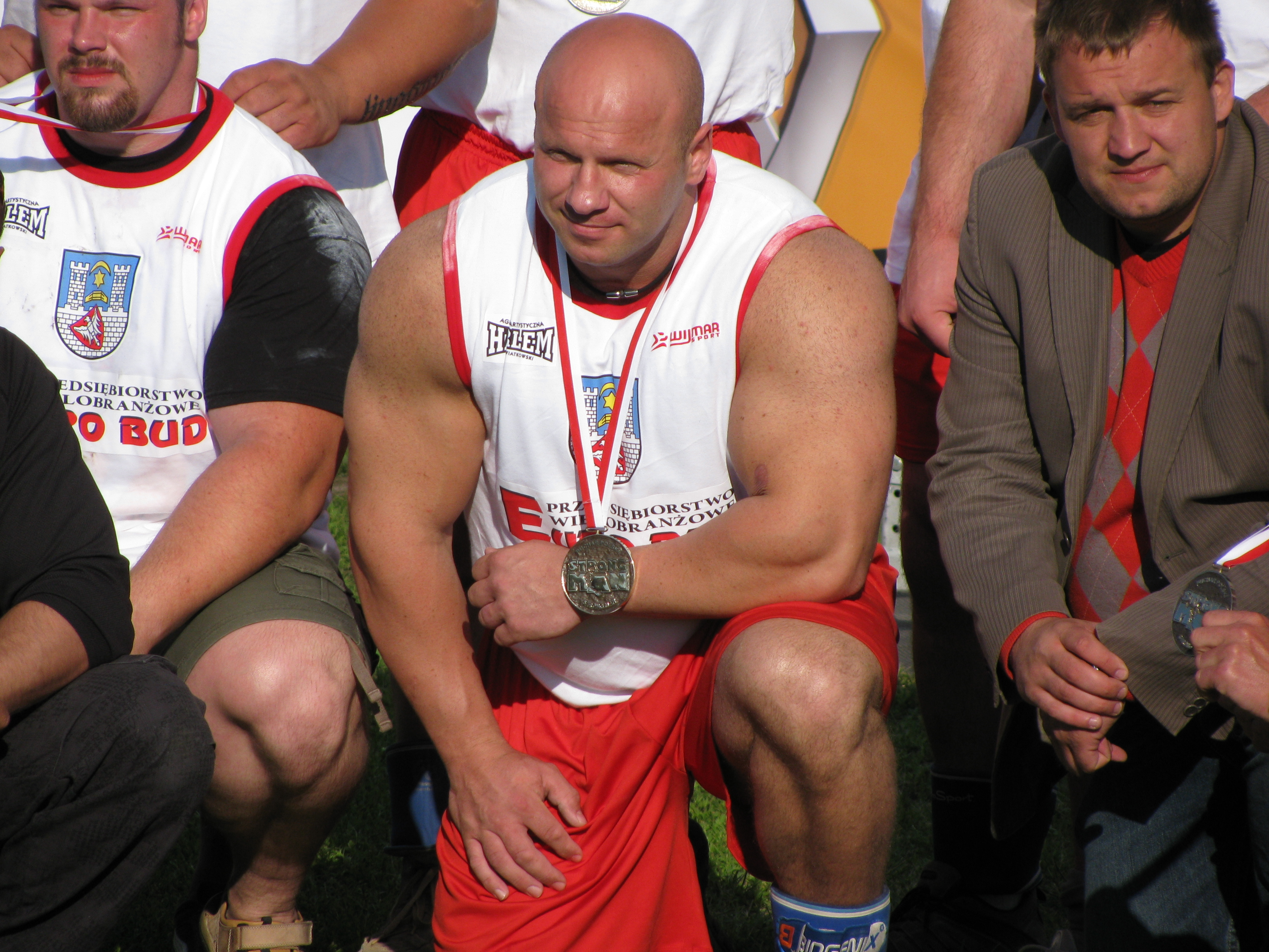 Robert Szczepanski-a strength athlete from Poland